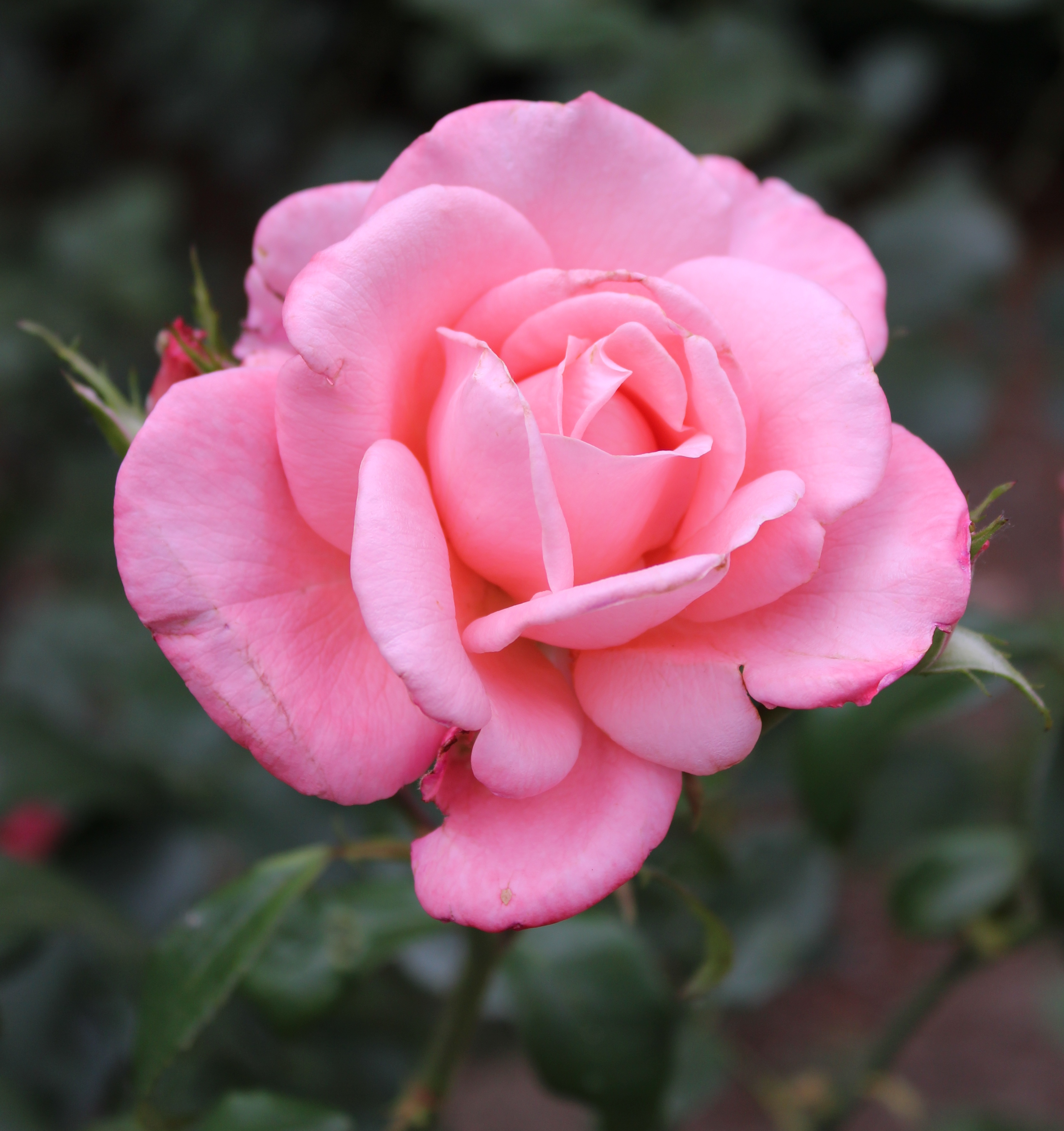 Rosa 'New Zealand' in the Rosarium Wettsteinpark in Vienna. Identified by sign.